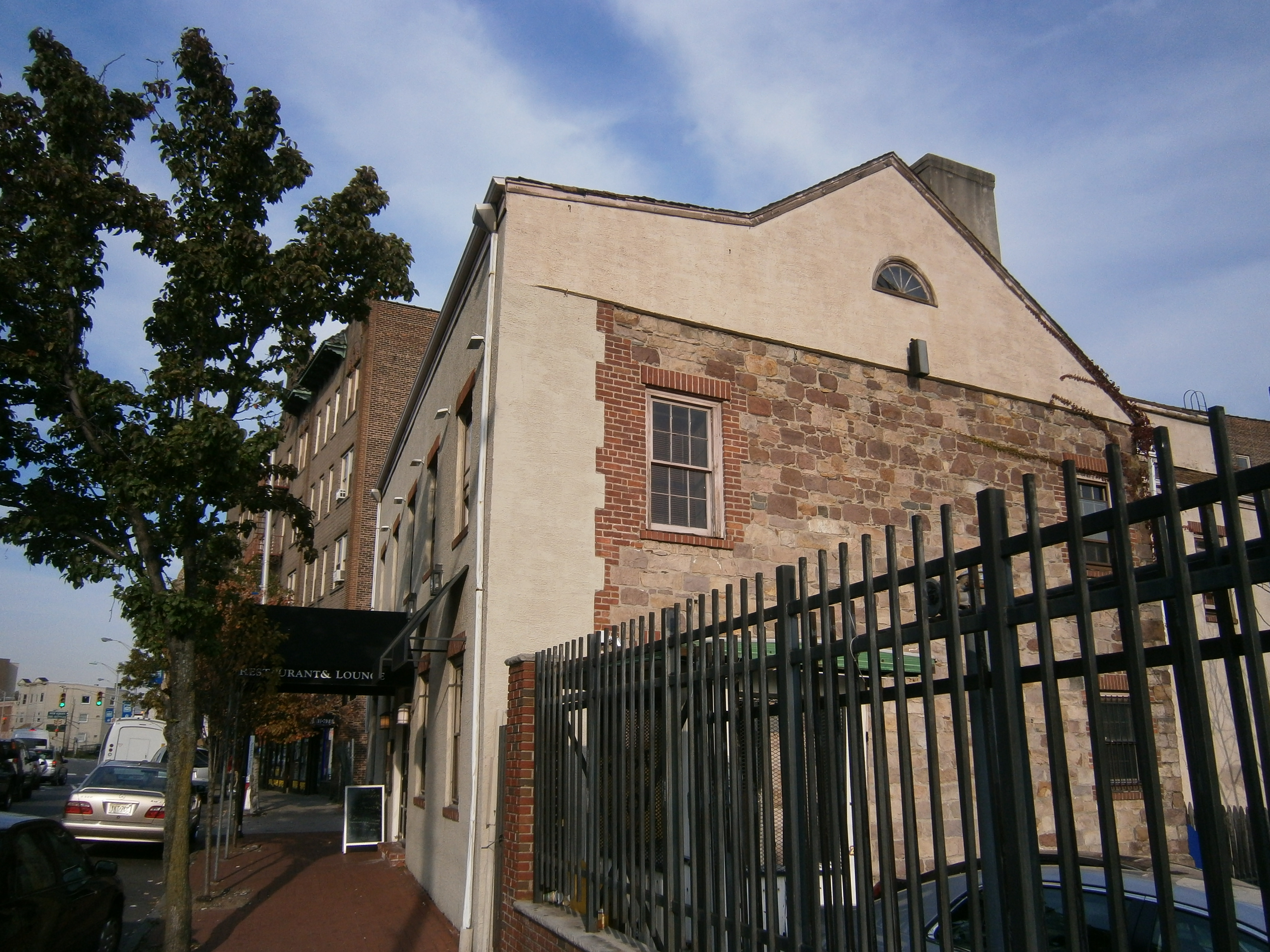 The Newkirk House, circa 1690, buildt as part of Bergen Dutch colony, is oldest extant building in Hudson County